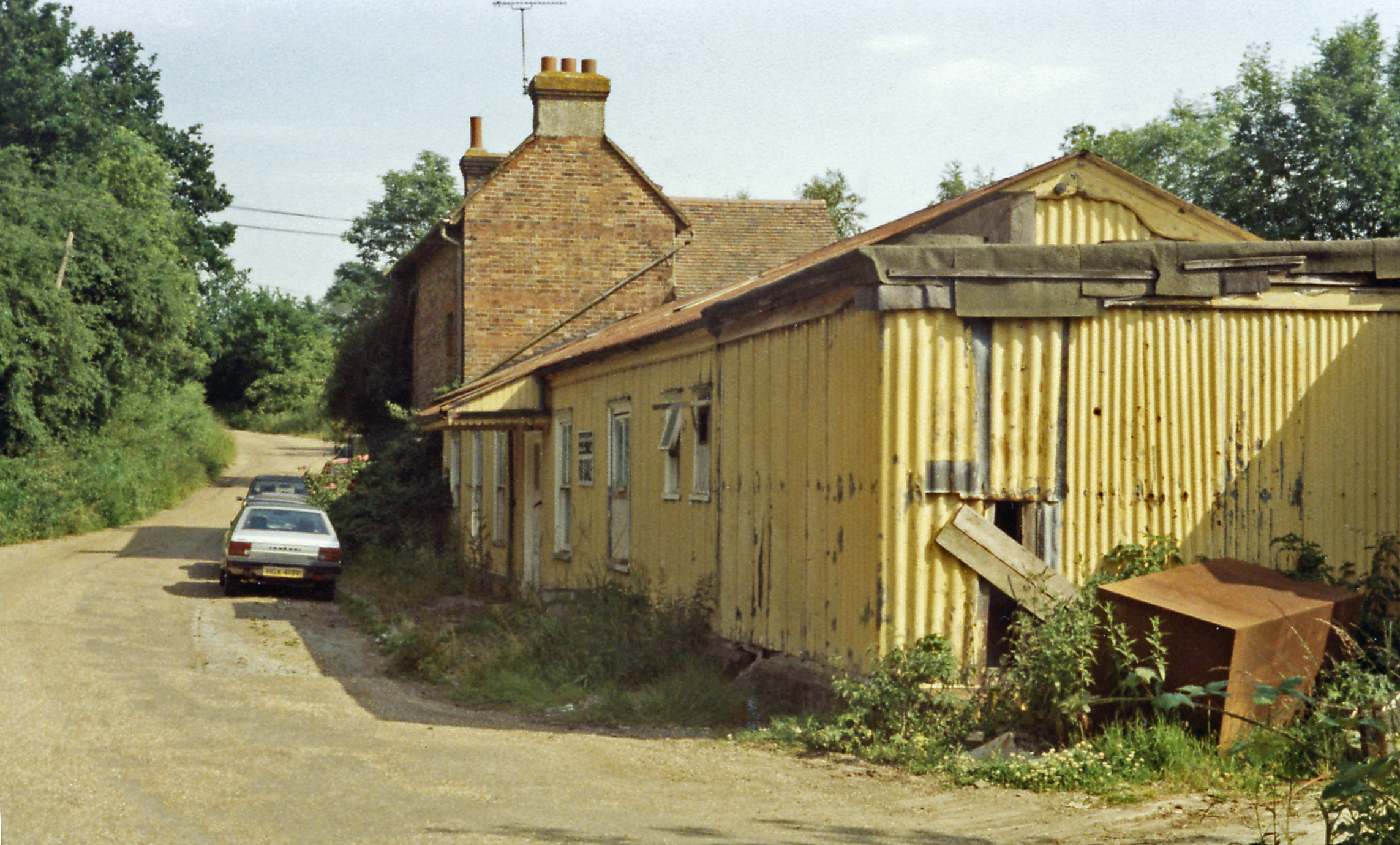 Cranbrook station (remains), 1984, View SE, towards Hawkhurst (probably on the trackbed, with uninspiring station buildings on the right): ex-SE&CR Paddock Wood - Hawkhust branch, closed 12/6/61. The station was actually at Hartley, about two miles from Cranbrook!